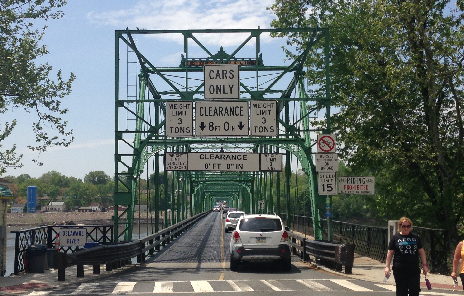 View west from the east end of the Calhoun Street Bridge-cropped